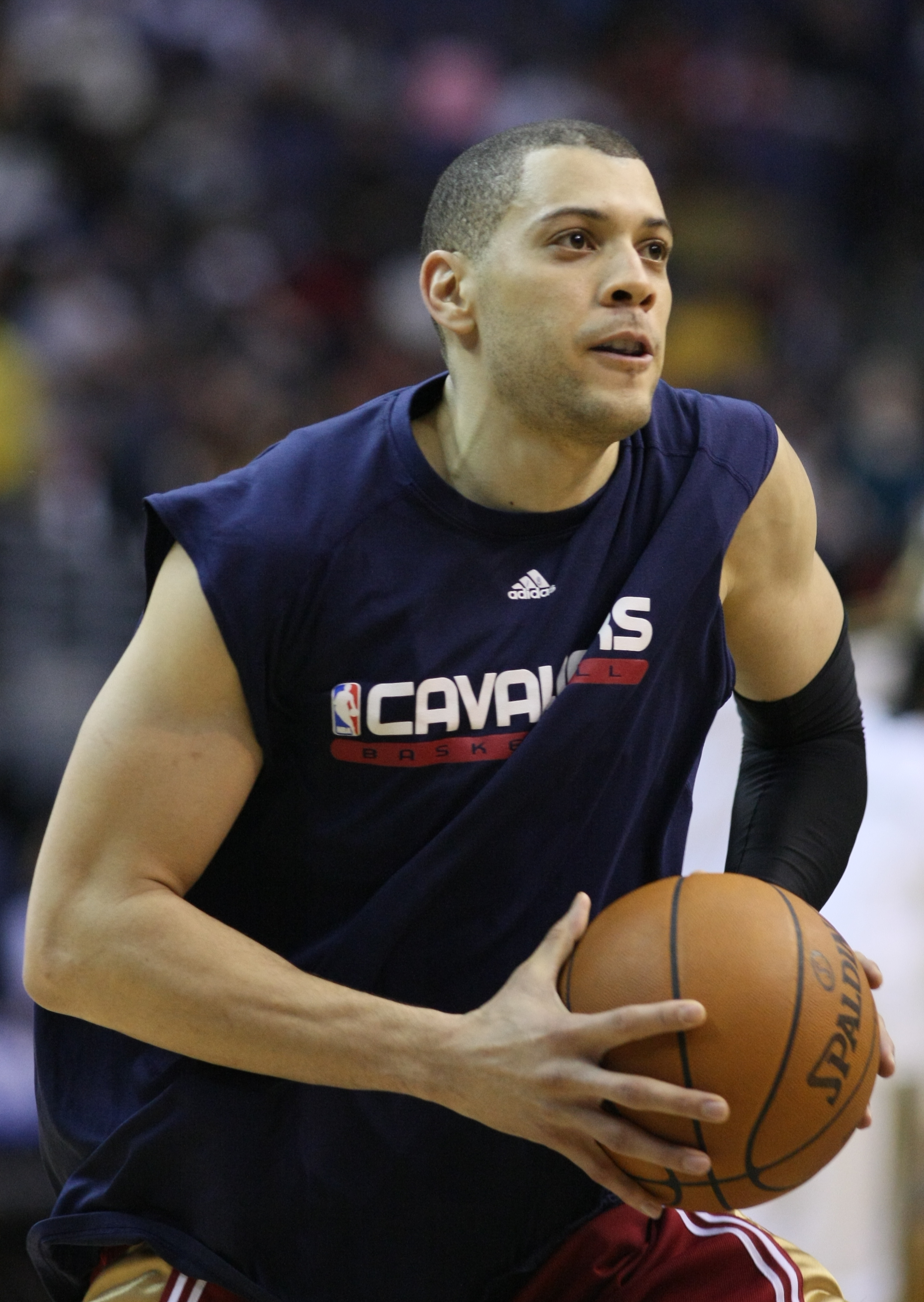 Washington Wizards v/s Cleveland Cavaliers November 18, 2009 at Verizon Center in Washington, D.C.